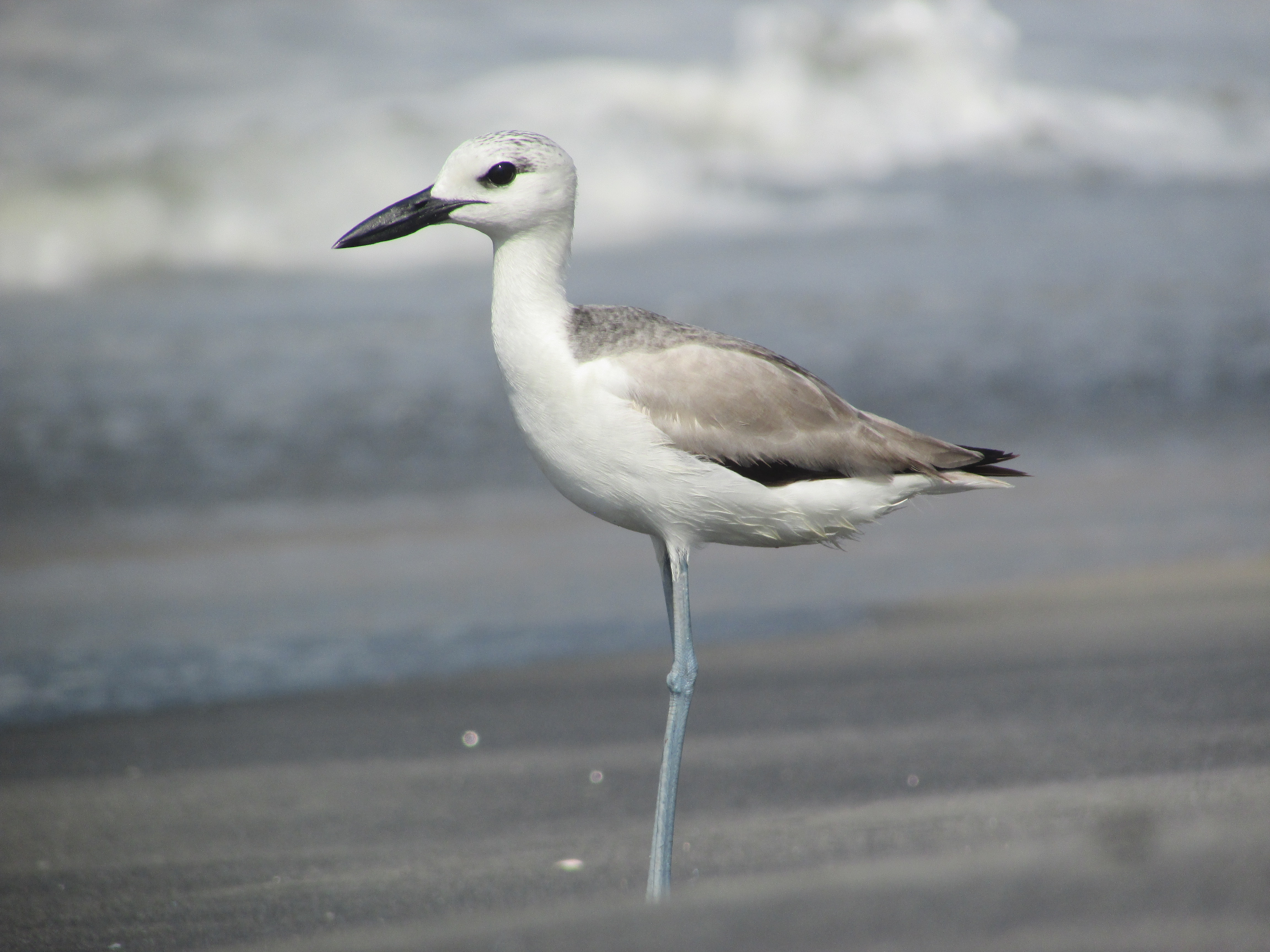 The crab-plover or crab plover (Dromas ardeola) is a bird related to the waders, but sufficiently distinctive to merit its own family Dromadidae. Its relationship within the Charadriiformes is unclear, some have considered it to be closely related to the thick-knees, or the pratincoles, while others have considered it closer to the auks and gulls. It is the only member of the genus Dromas and is unique among waders in making use of ground warmth to aid incubation of the eggs.